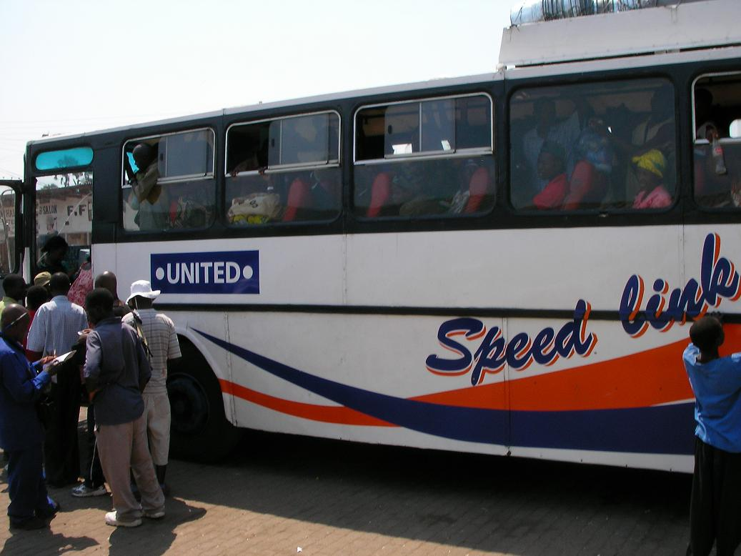 Photo taken at the bus station of Mangochi, Malawi. Altimeter 487 meters.